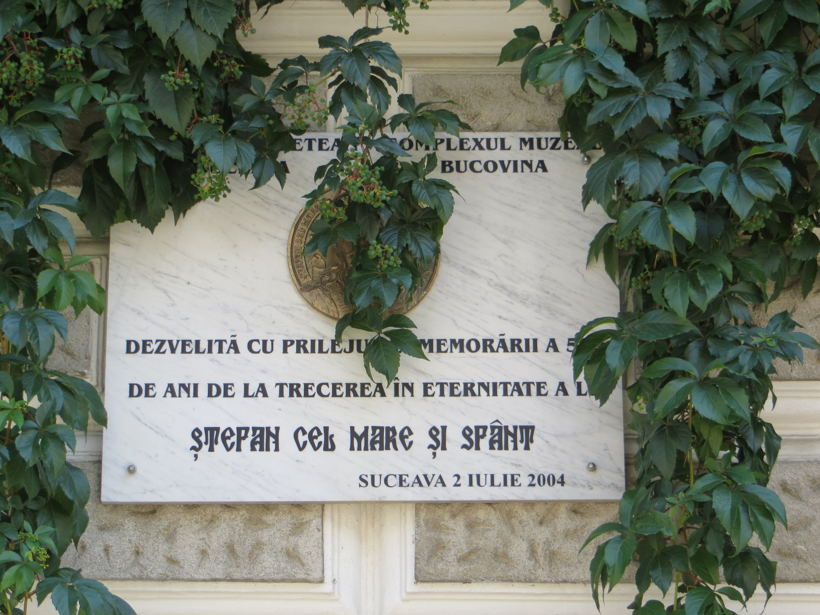 Bukovina Museum in Suceava / Suceava History Museum – 2004 memorial plaque.